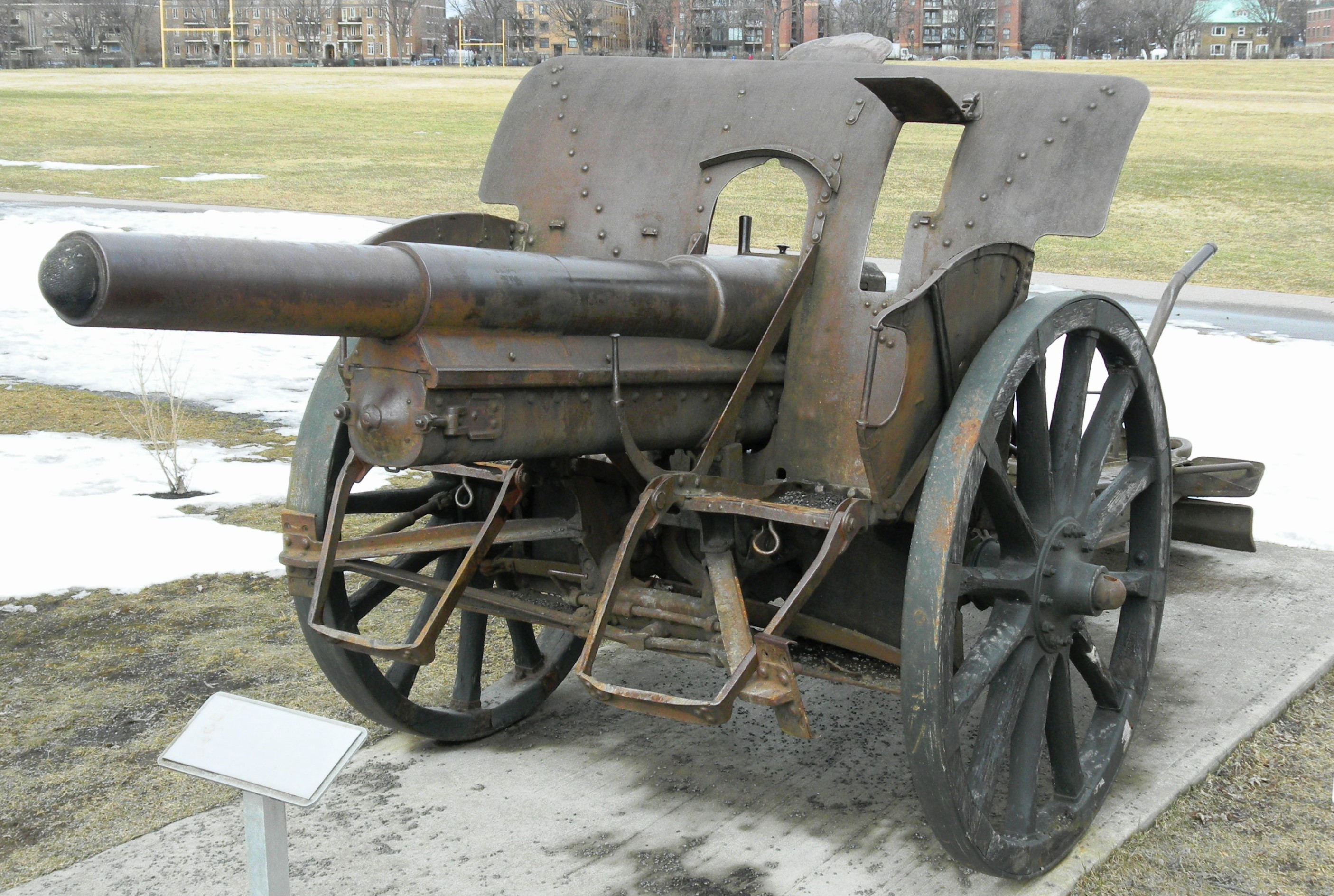 German First World War 10.5 cm leichte Feldhaubitze 16 (10.5 cm leFH 16), (Serial No. 12826), also stamped M.1352, S.4276, Fr. Kp. 1917. The 10.5 cm leFH 16, was a field gun that shared the same carriage as the 7.7 cm FK 16. This gun was captured 2 September 1918 by the 13th Battalion (Royal Highlanders of Canada), 3rd Infantry Brigade, 1st Canadian Division, Canadian Expeditionary Force (CEF), at Cagnicourt Wood, France. A cannon ball is cemented in the muzzle. It is on display on the Plains of Abraham Battlefield Park, Québec City, Québec, Canada.